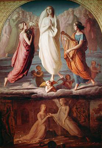 Assumption of the Virgin